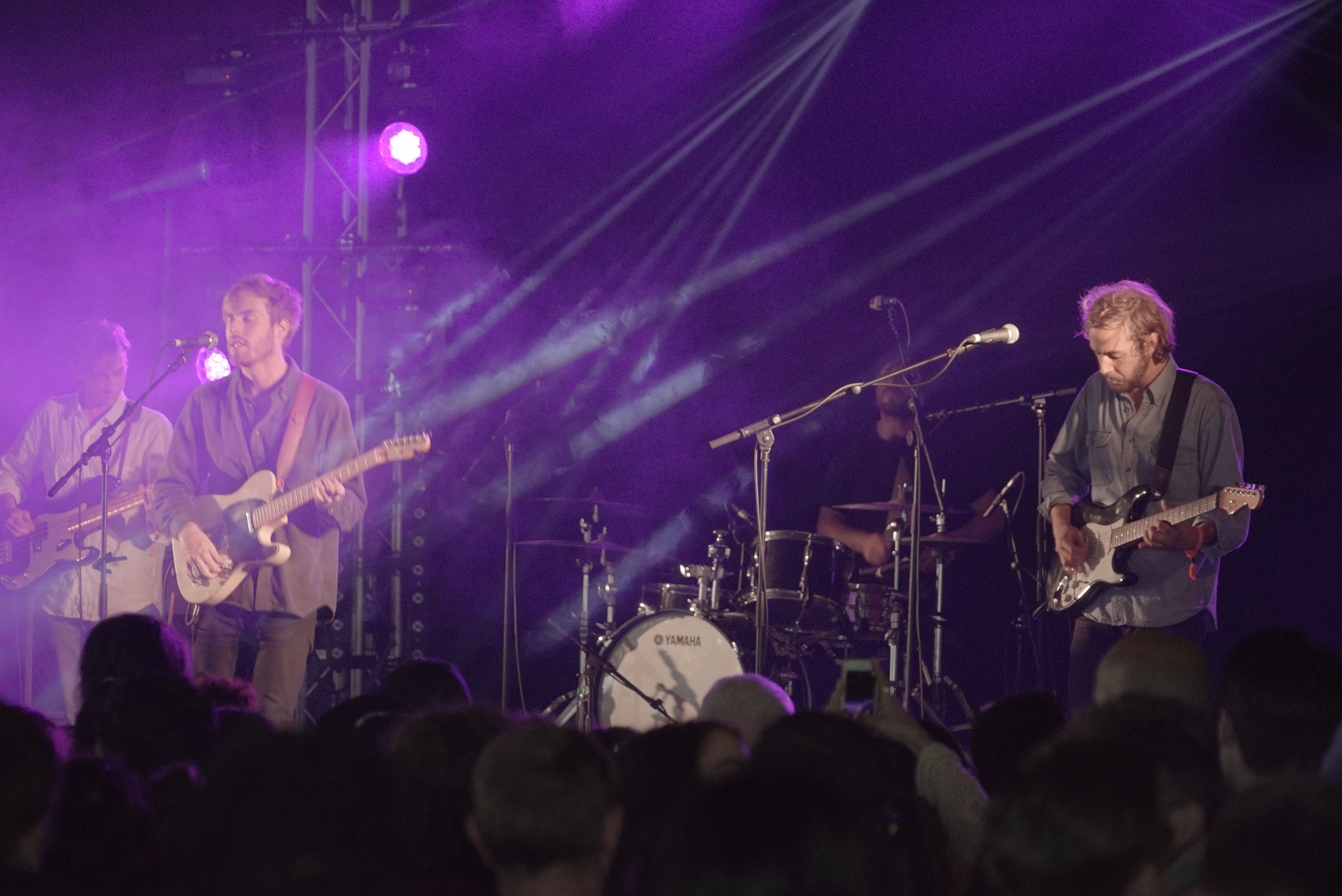 Wild Nothing performs on the Shacklewell Arms stage at Field Day 2016